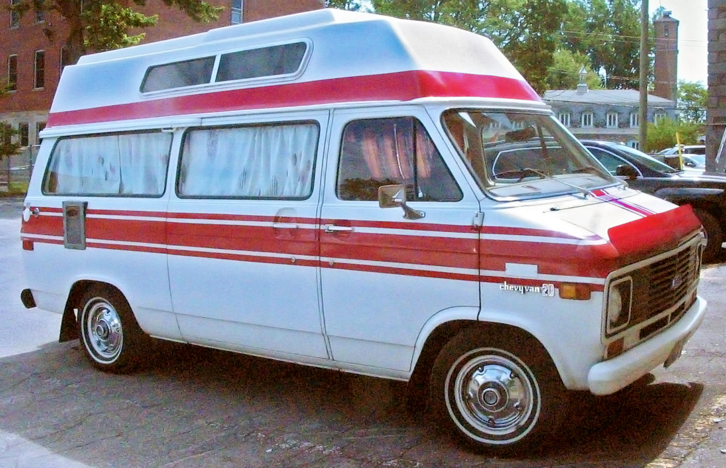 1971-1972 Chevrolet Conversion Van photographed in Laval, Quebec, Canada at the Auto classique Laval.